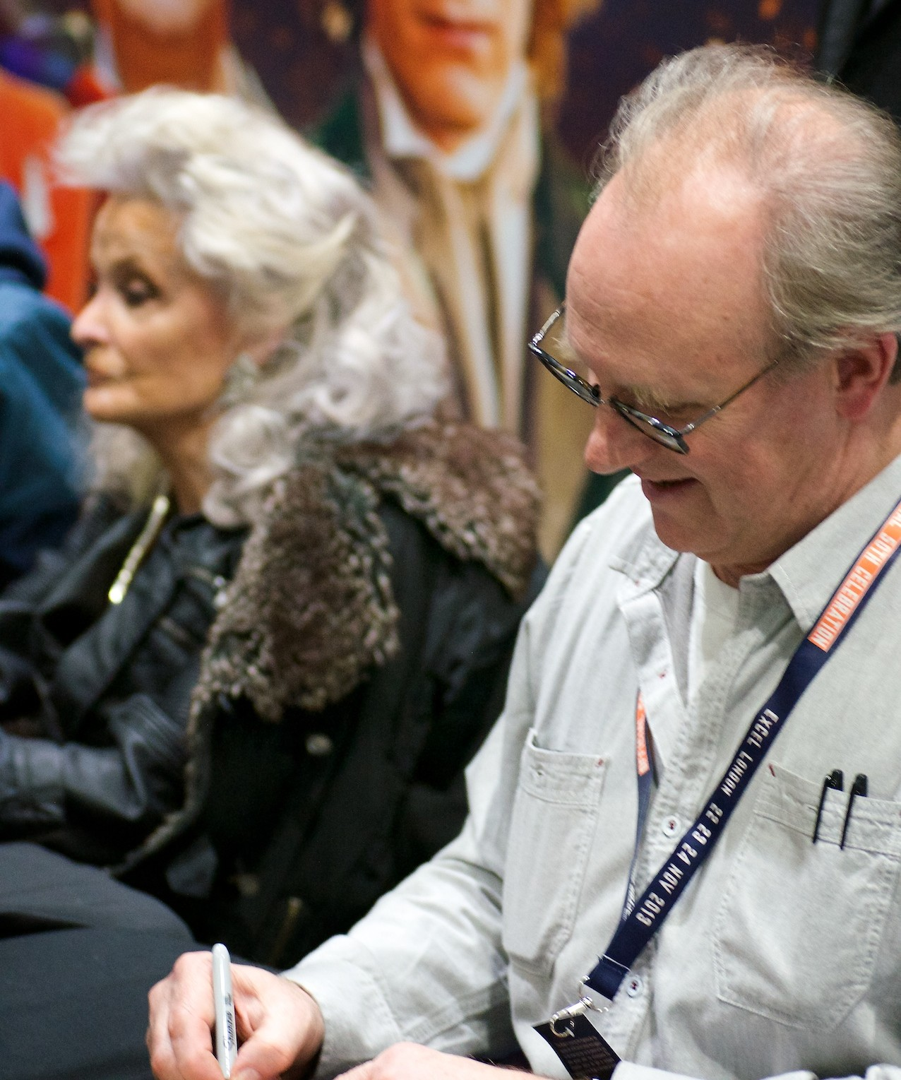 Peter Davison and Kate O'Mara at Doctor Who 50th Celebration which was a three-day event, which took place at ExCeL London from Friday, November 22 to Sunday, November 24.